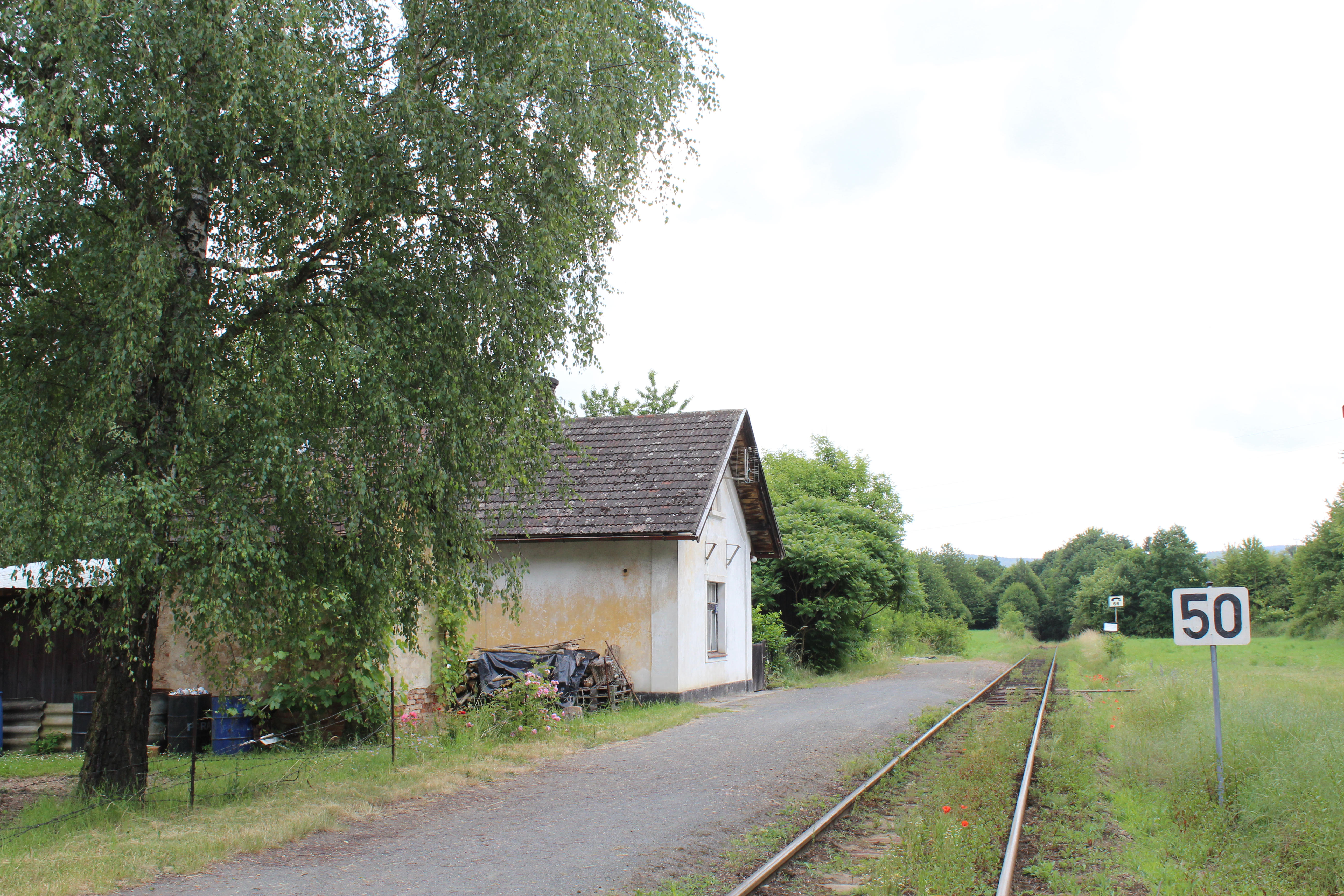 Train station Běleč (Liteň) on railway line 172 from Zadní Třebaň to Lochovice, Czech Republic